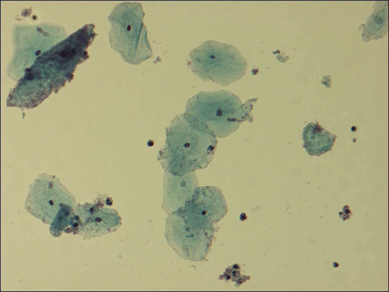 Microscopic view of Gardnerella vaginalis, magnified 400x